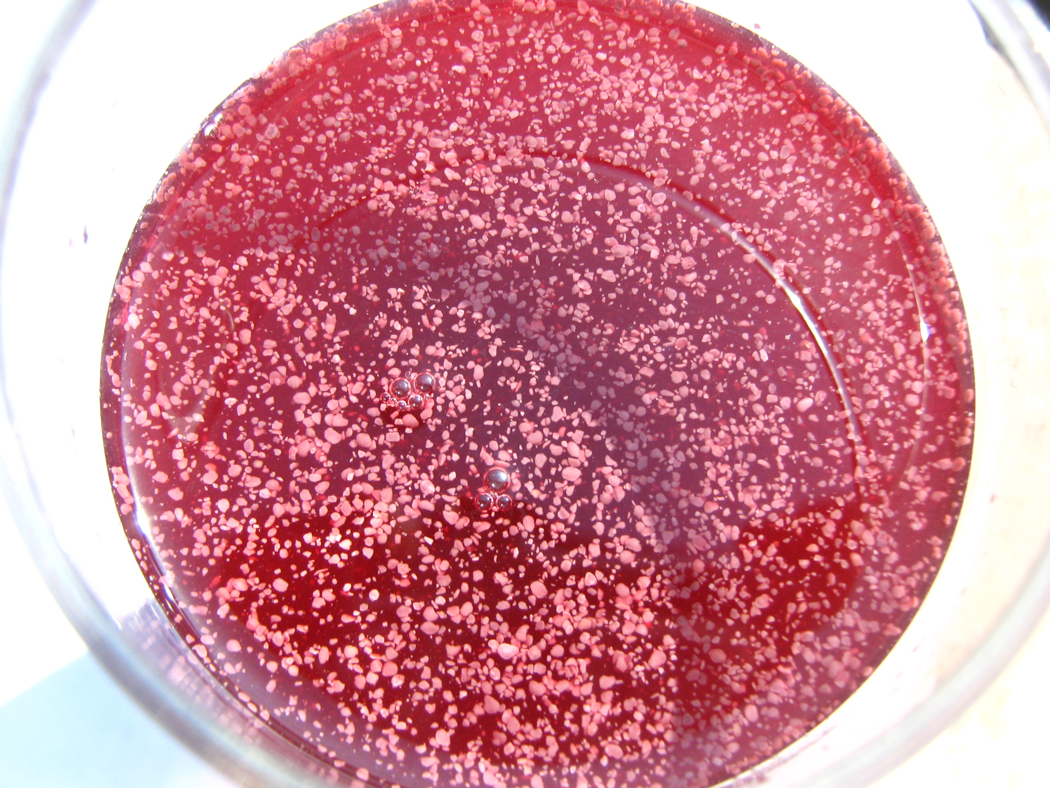 Kanji